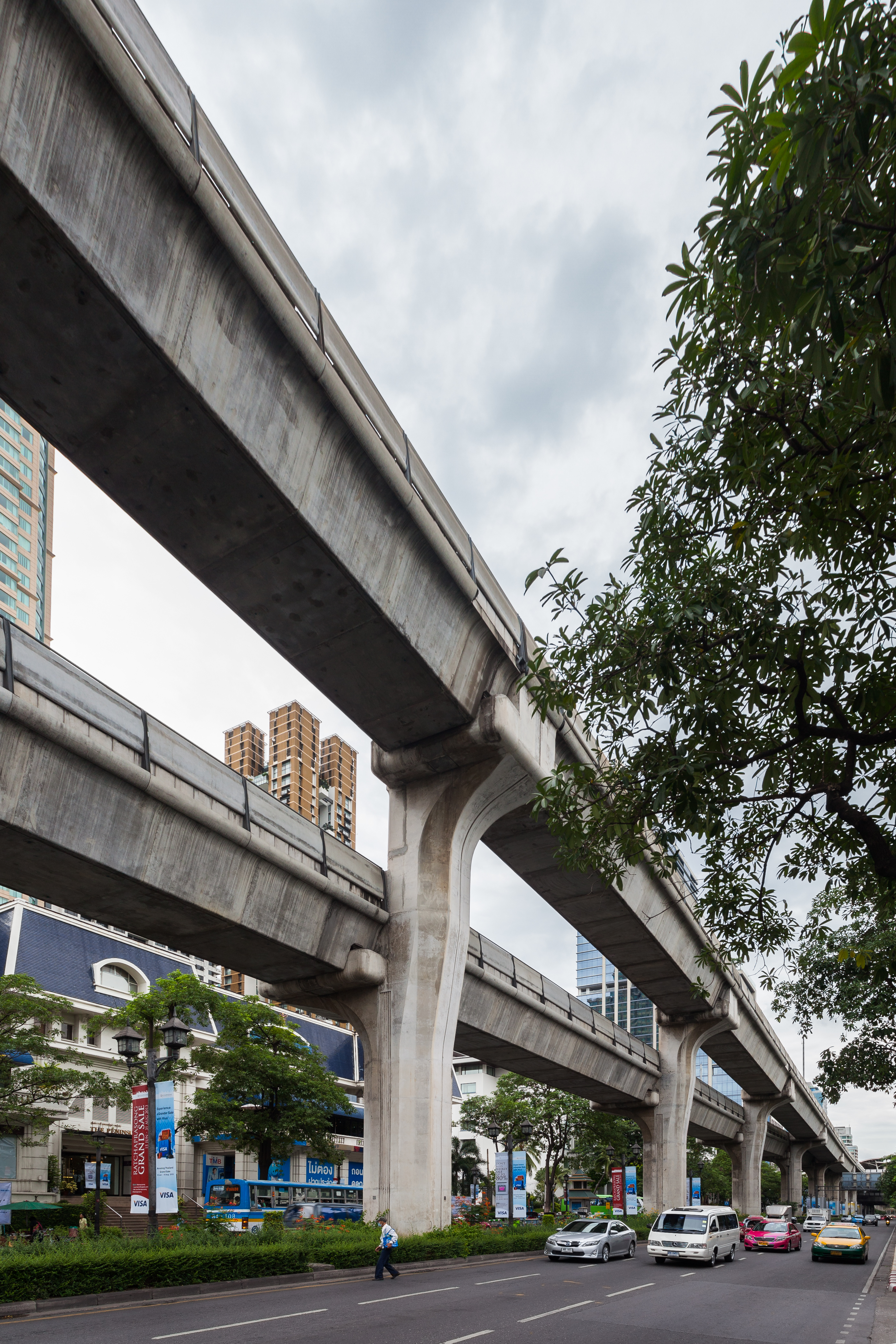 Ratchadamri Street, Pathum Wan district, Bangkok, Thailand